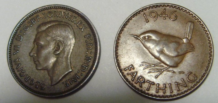 Photograph of a farthing dated 1946, with George VI and Wren